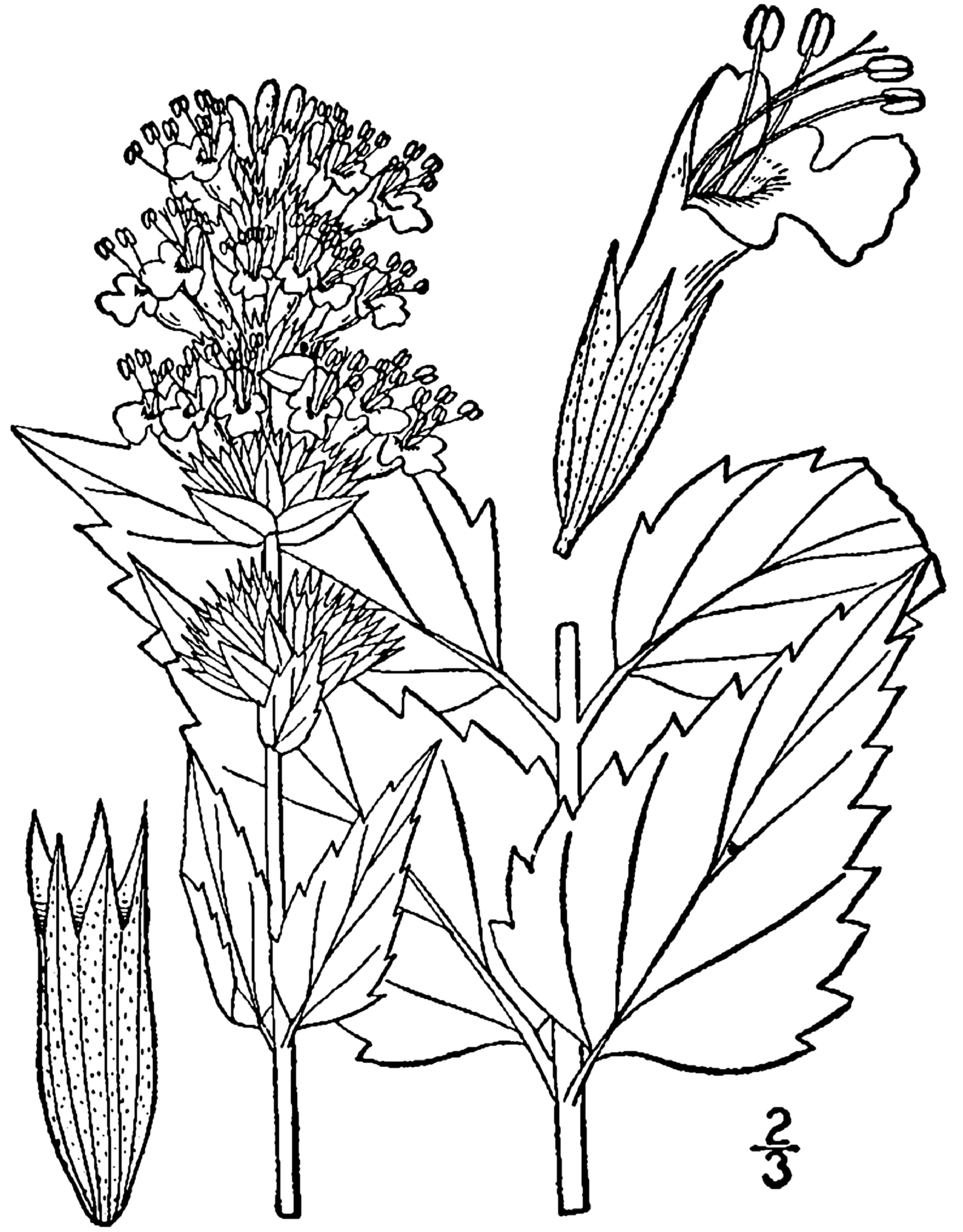 Blue Giant Hyssop. Drawing.